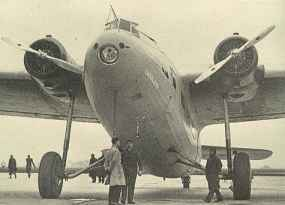 Fokker F.XXII from Swedish airliner ABA